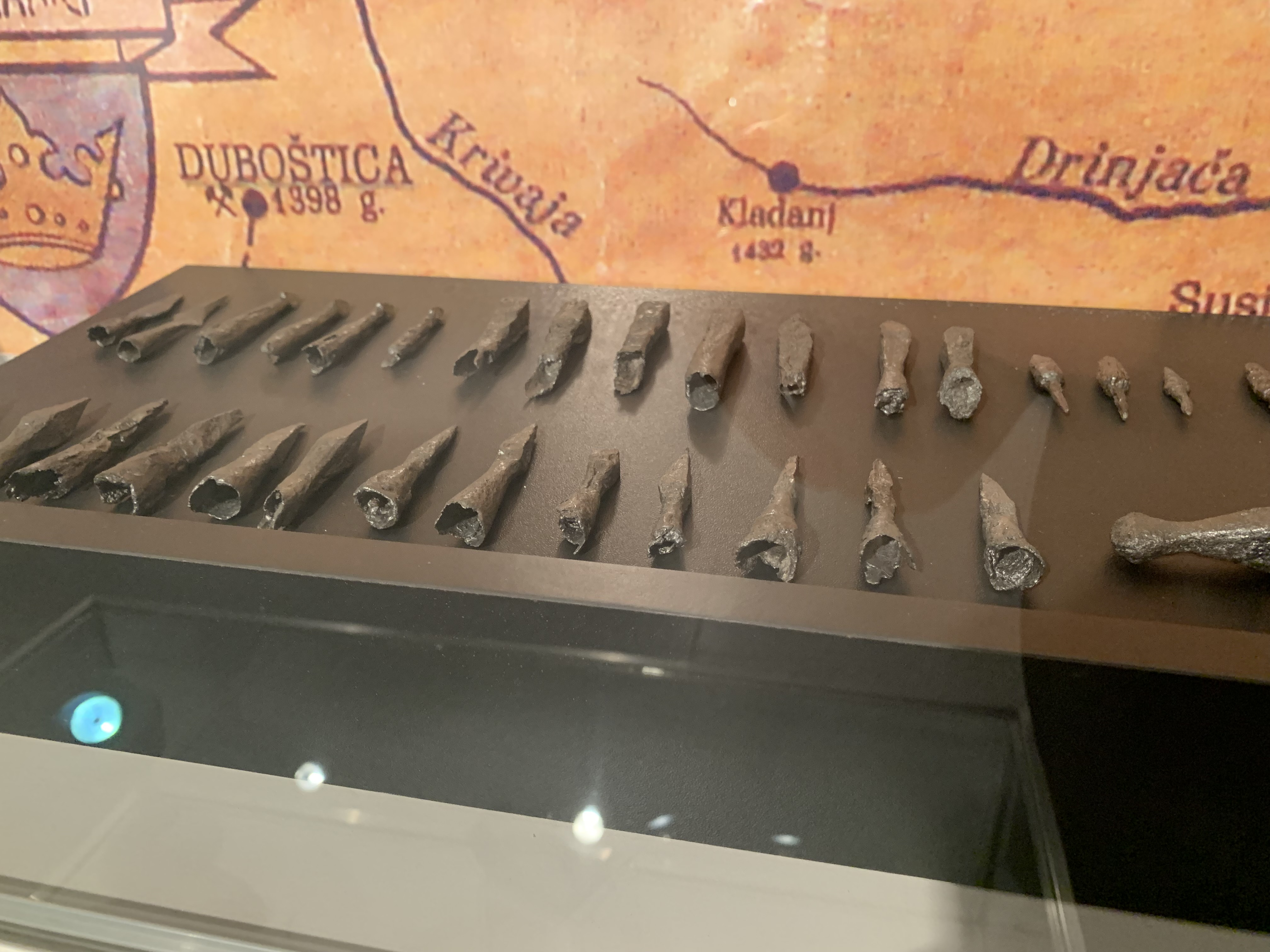 Projectiles